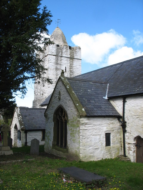 Eglwys Mechell Sant, Llanfechell There has been a church on this site since 630 CE. The first, a wattle and daub affair, was built by Mechyll ab Echwys Gwyn Go Loyw. also variously known in different jurisdictions as Malo, Mechell, Machu, Machutes and Maclovius. His name is associated with churches, and settlements,in Britanny, Northern France and Ireland. He is also the patron saint of two churches he established in Gwent. The present church is medieval, with later additions, including the tower dating from the 16thC.